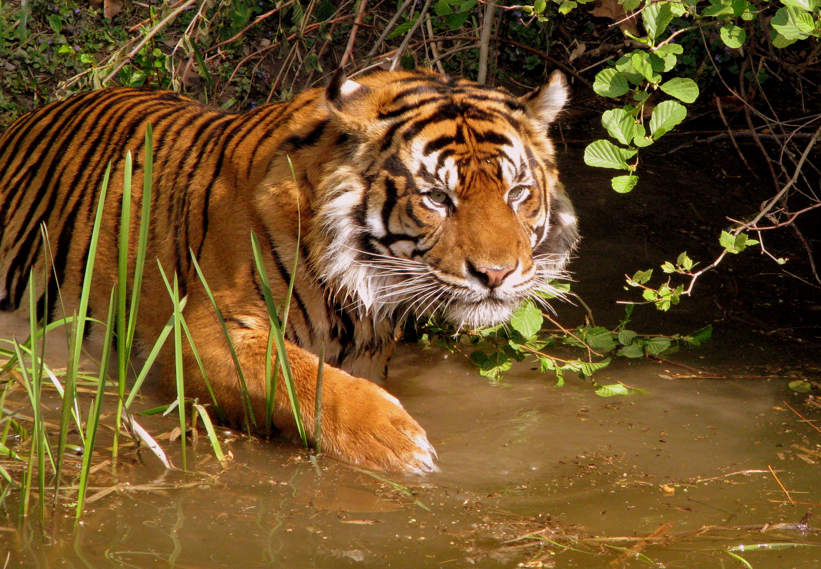 This tiger steps gently for catlick!